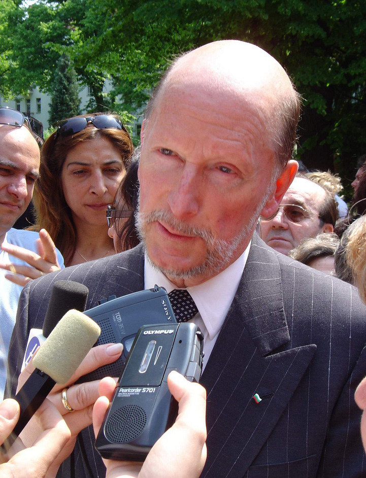 Simeon Borisov of Saxe-Coburg and Gotha, last Tsar of Bulgaria and Prime Minister of Bulgaria (in office 24 July 2001 – 17 August 2005) on May 30, 2005 in Berlin, Germany.